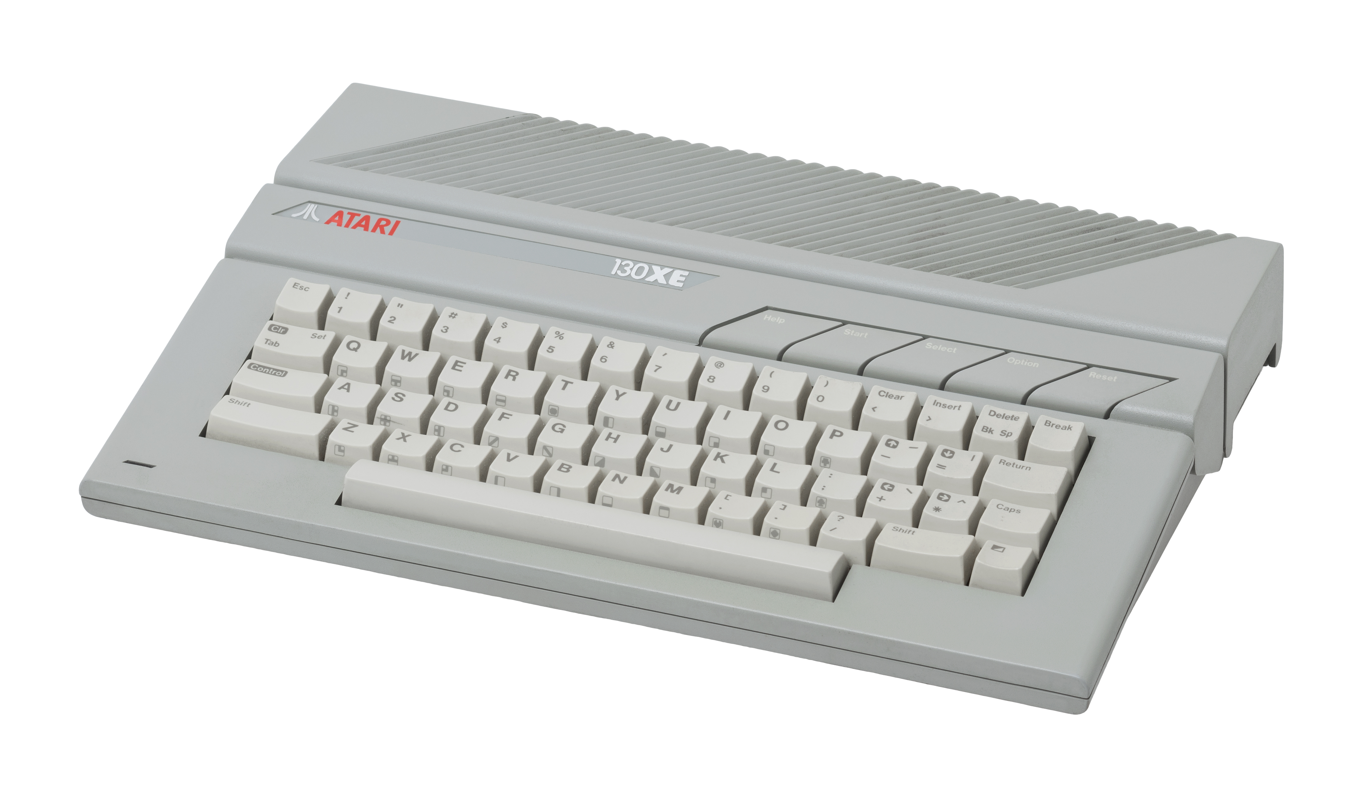 The Atari 130XE, an 8-bit home computer released by Atari Corporation in the mid-'80s.